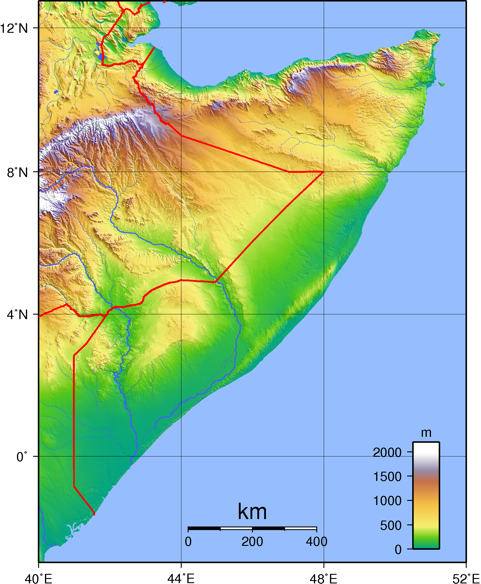 Topographic map of Somalia. Created with GMT from GLOBE data.